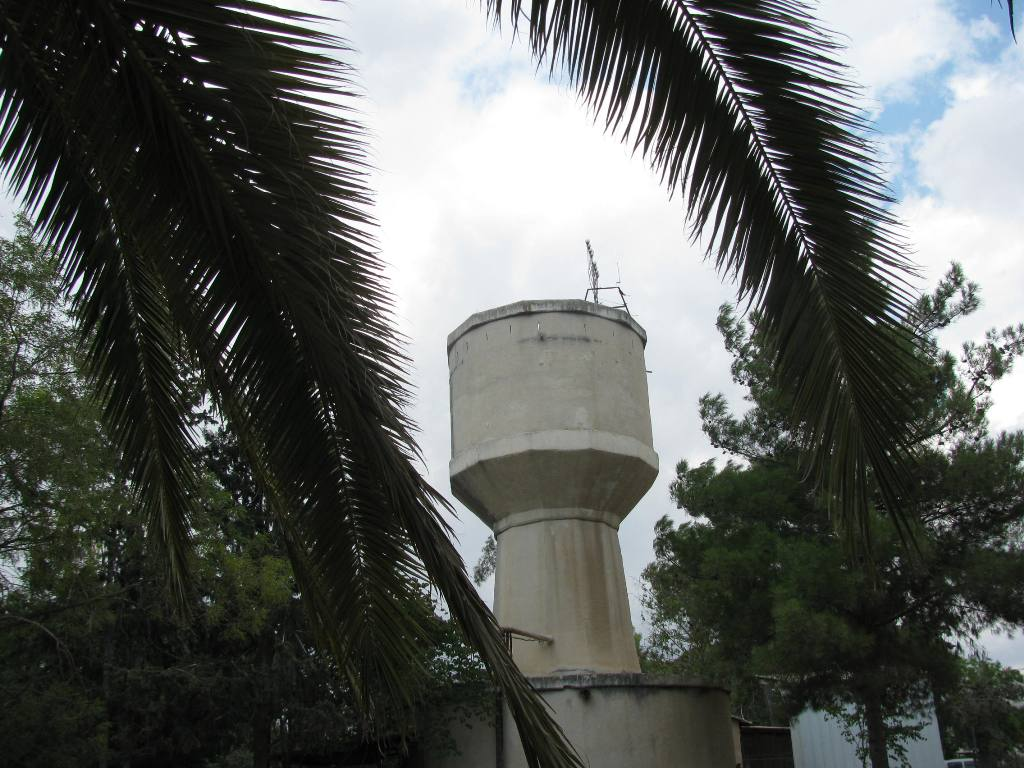 Water Tower